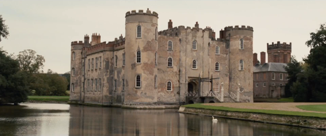 Shirburn Castle, Oxfordshire